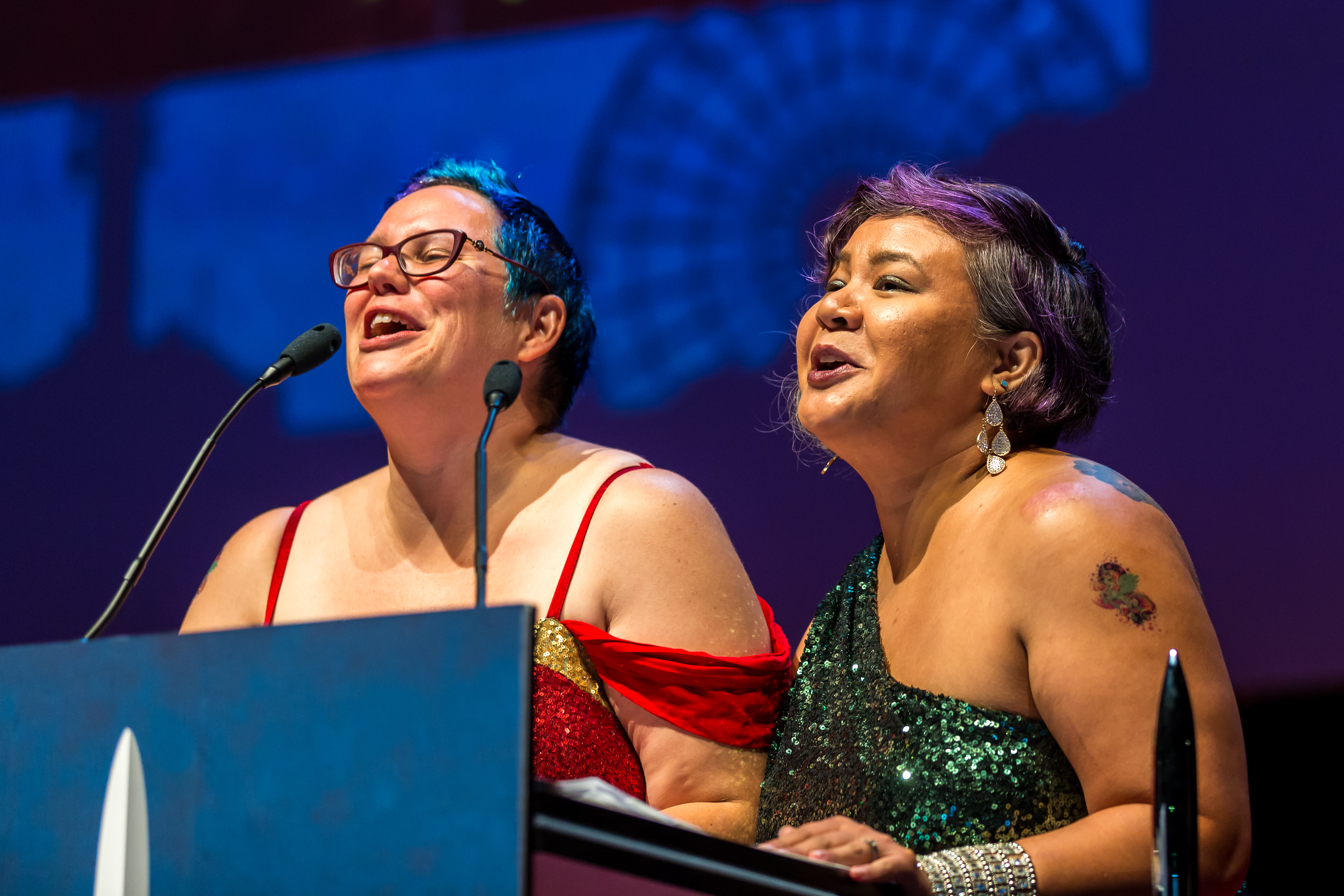 Julia Rios, Michi Trota, for Uncanny Magazine, at the Hugo Award Ceremoy at Worldcon in Helsinki.